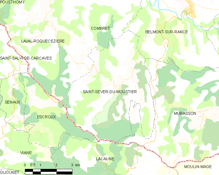 Map commune FR insee code 12249.png - Saint-Sever-du-Moustier